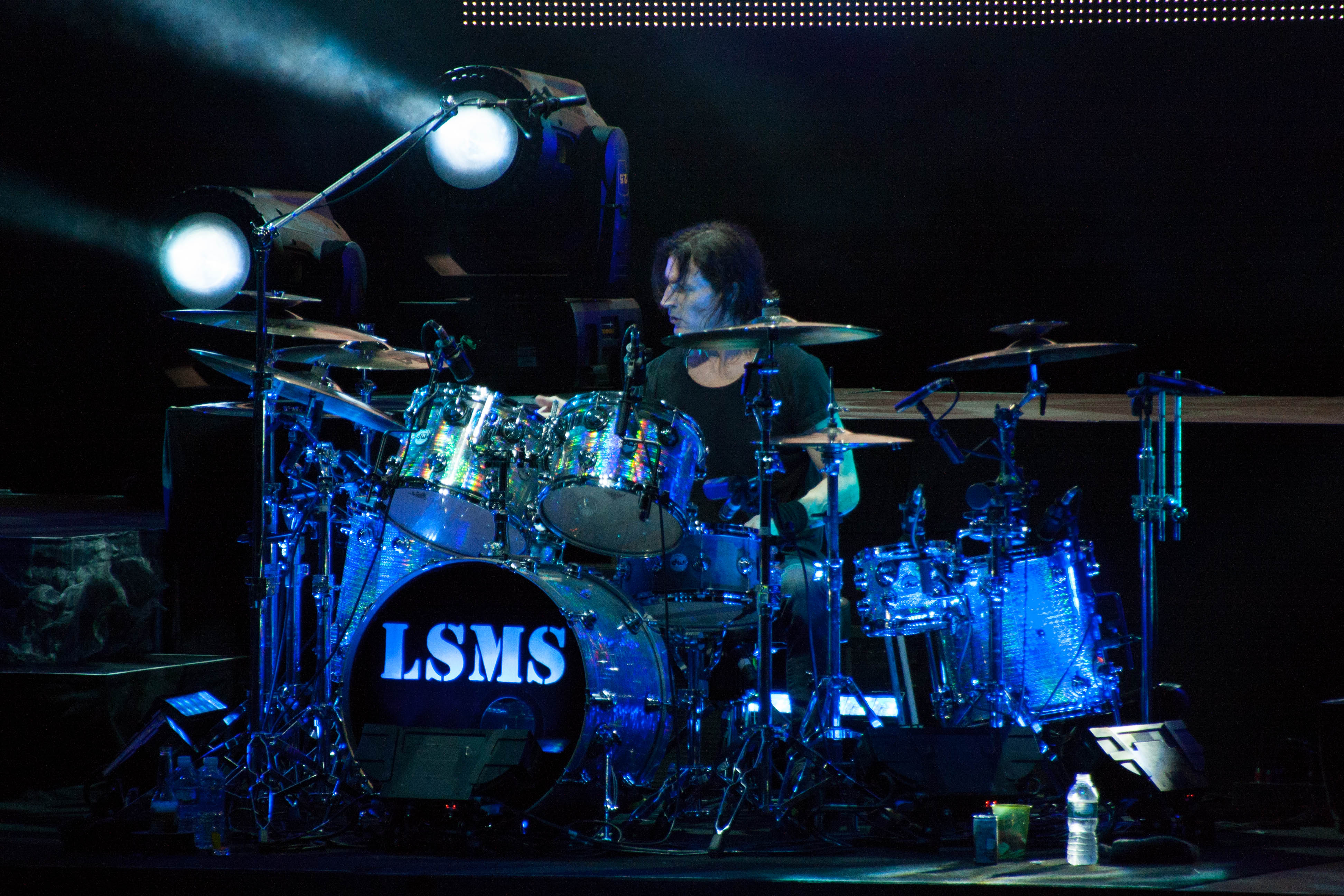 Sean Kinney live at Uproar Festival, 2013